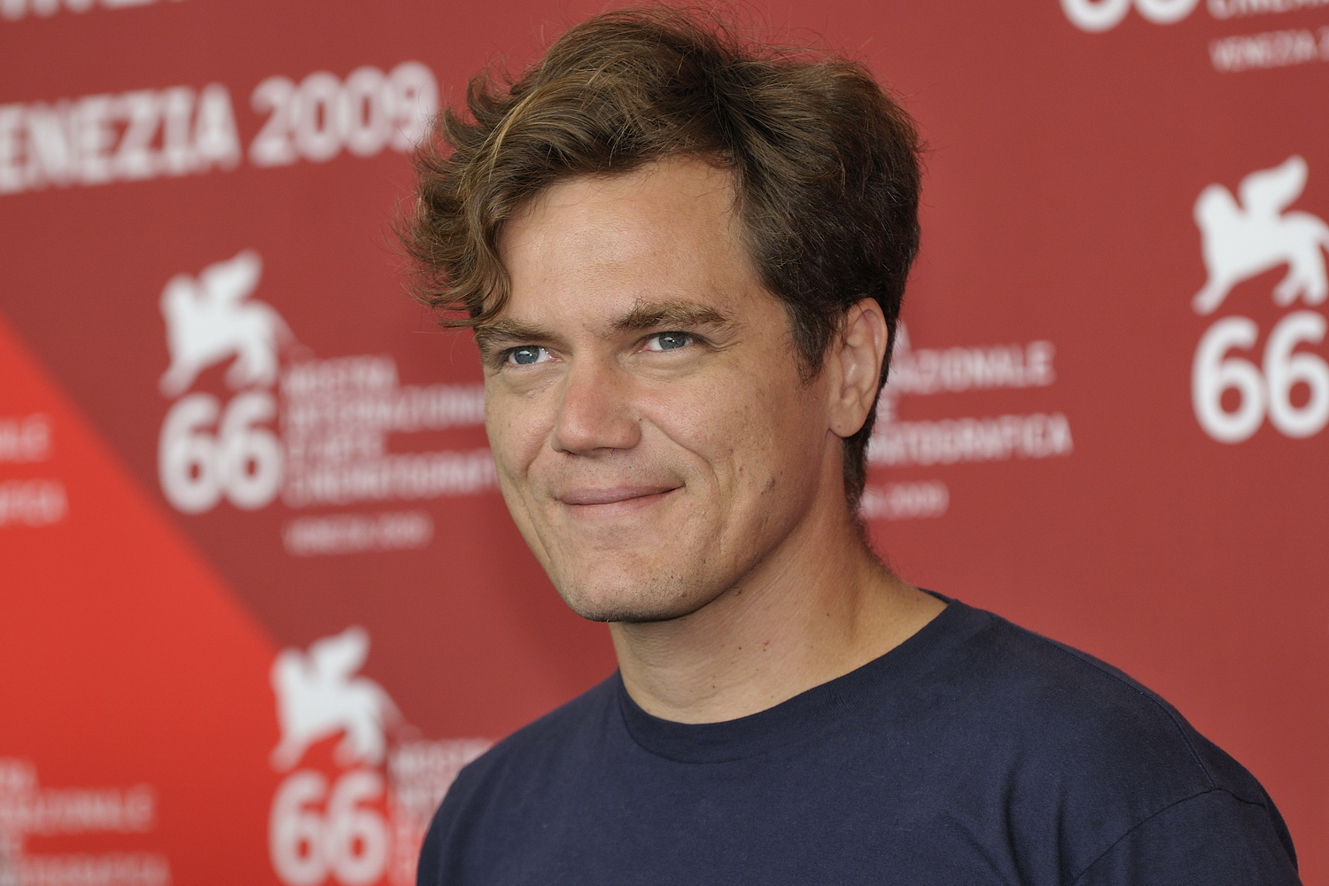 Michael Shannon at 2009 venice Film Festival